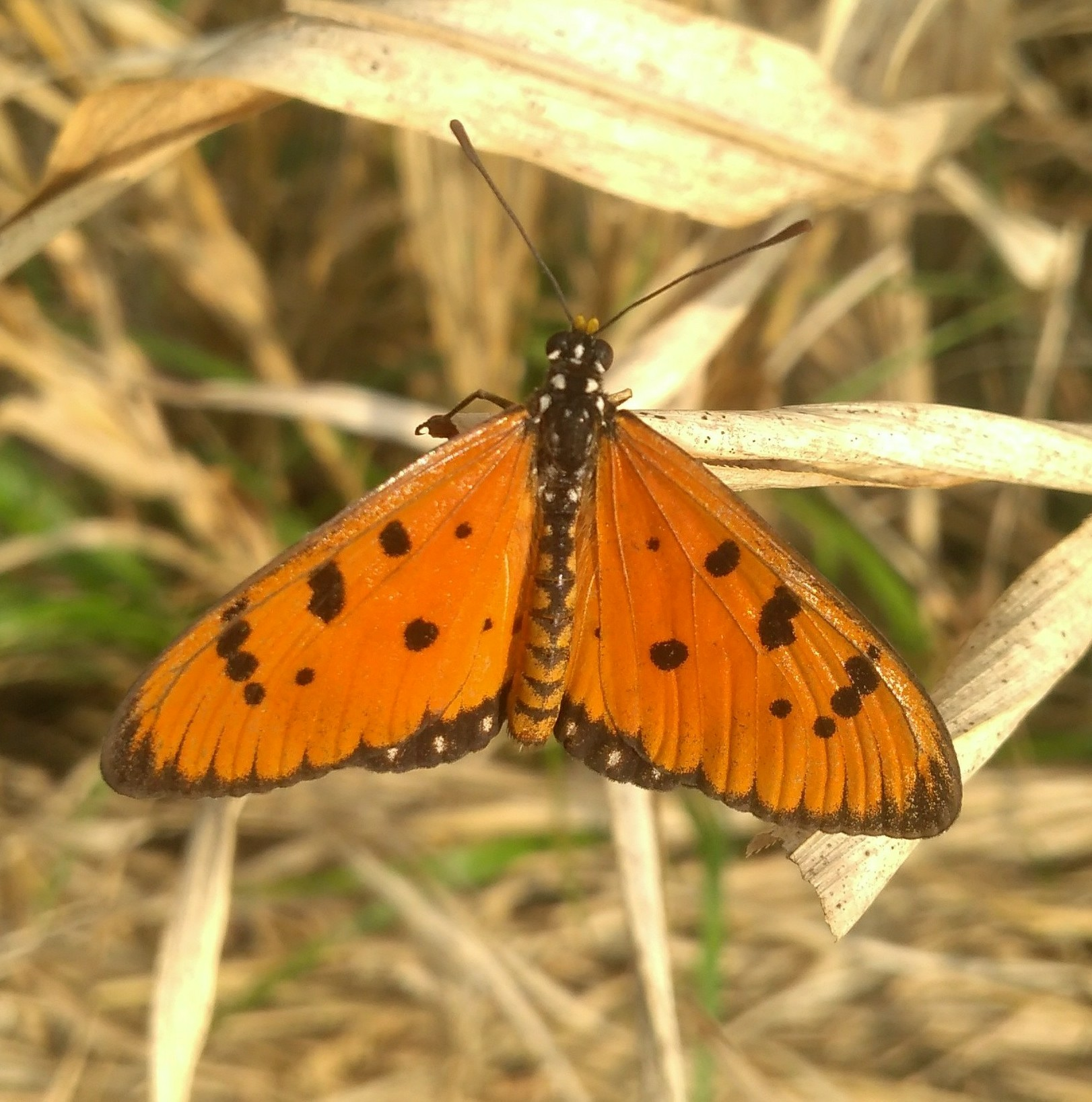 A male Acraea terpsicore, or the tawny coster butterfly at Susunia Hill, Bankura, West Bengal, India.